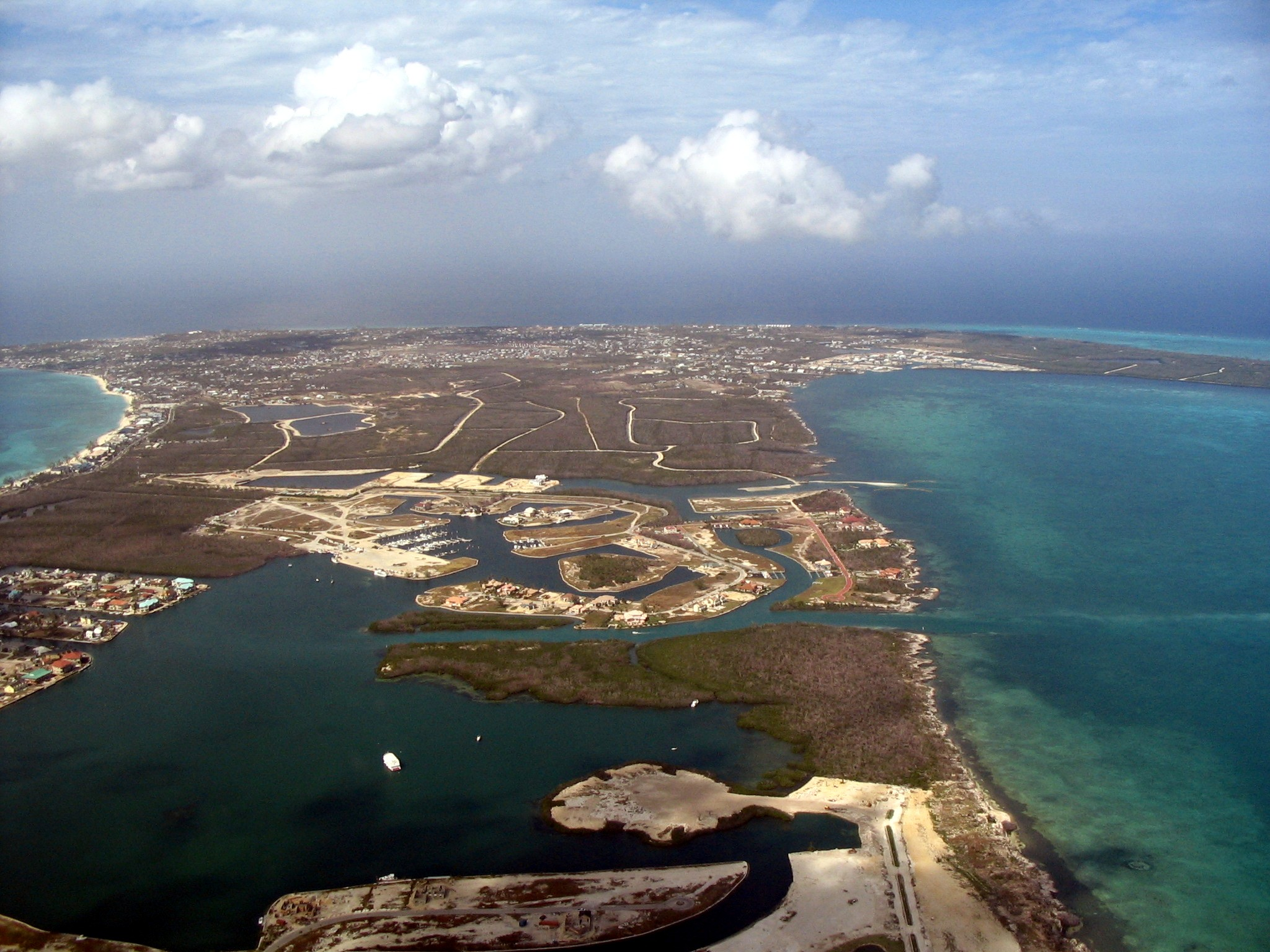 Grand Cayman from the plane